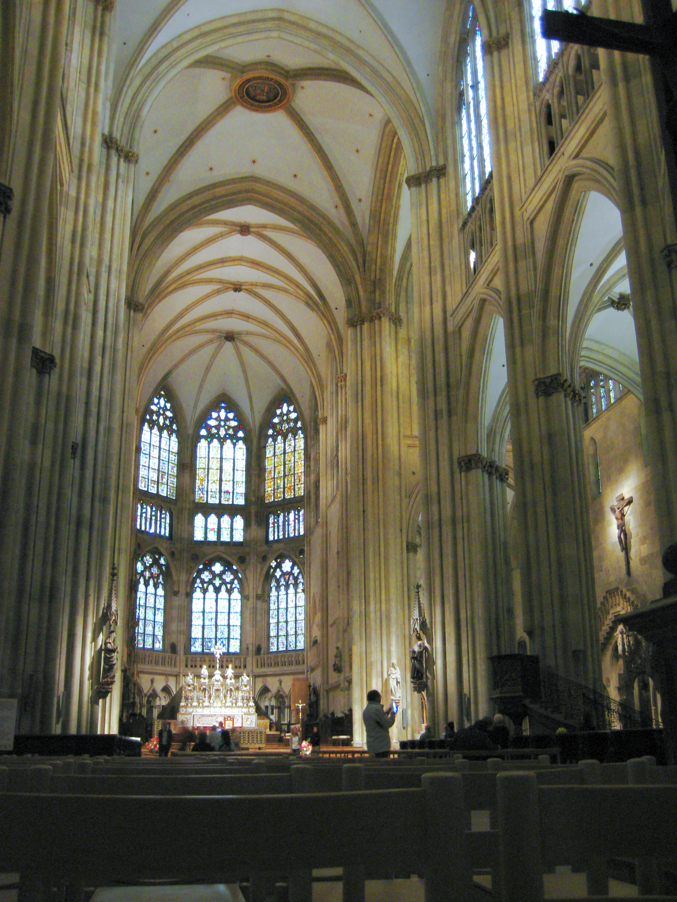 Regensburg Cathedral